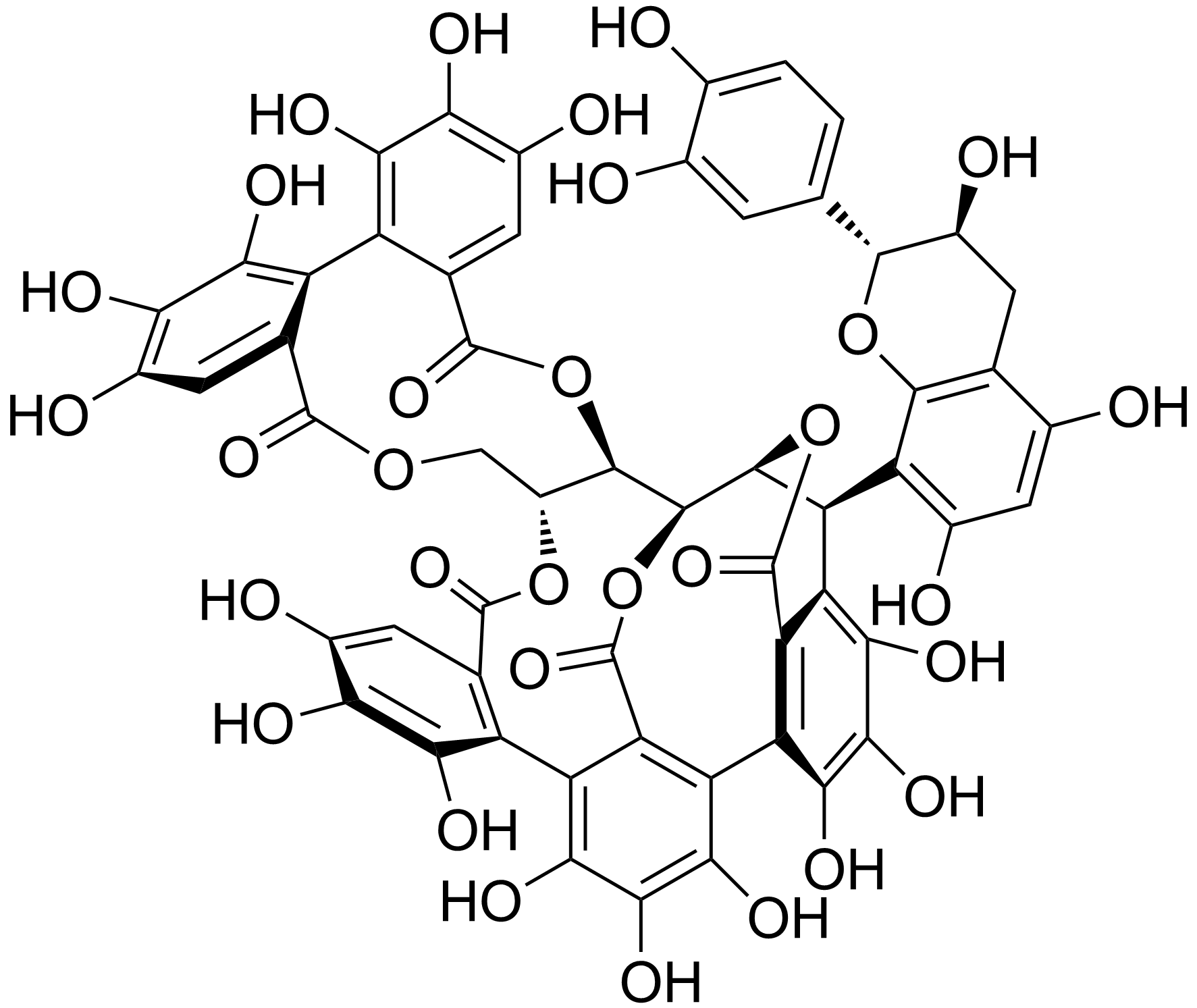 Chemical structure of acutissimin A